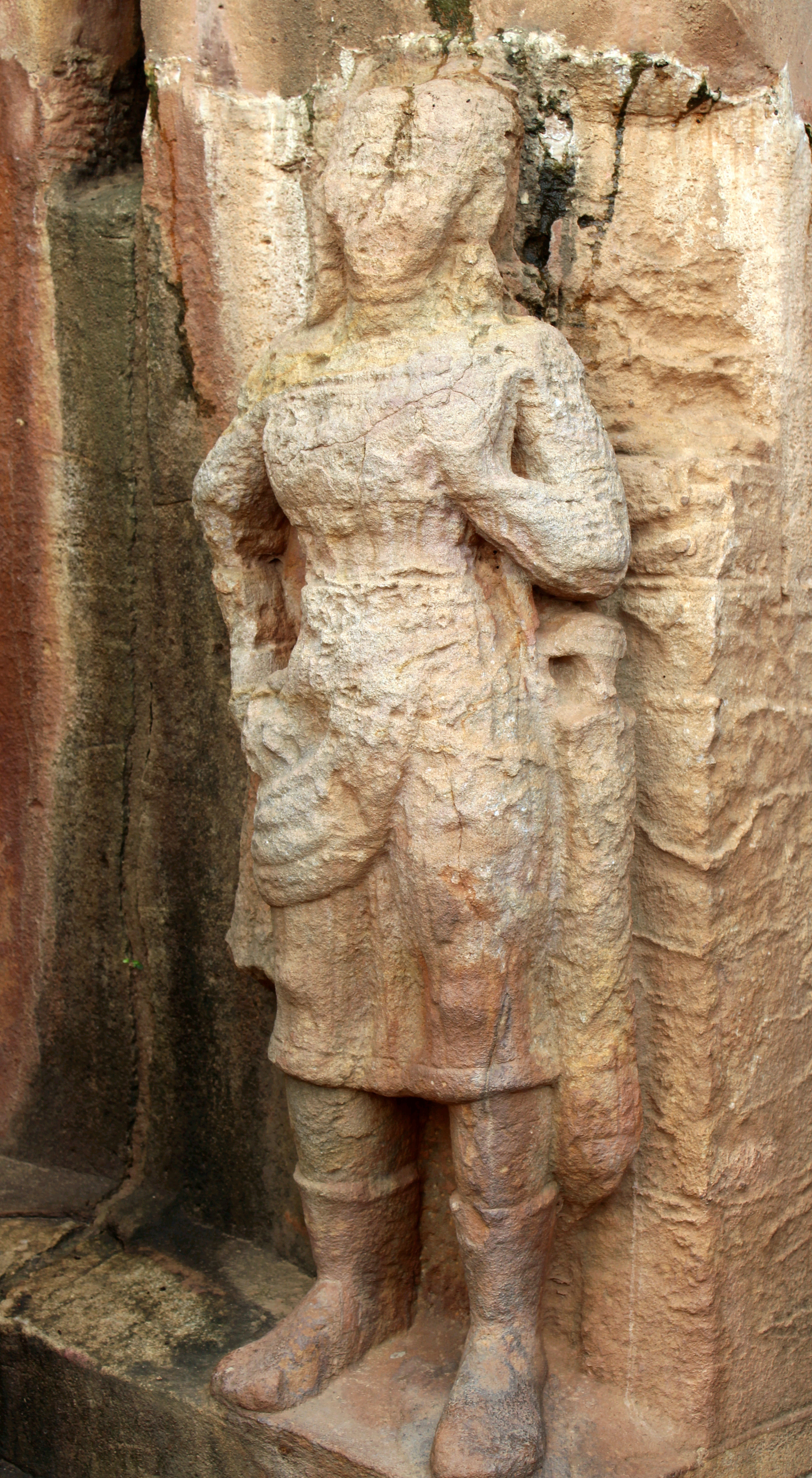 Udayagiri Yavana warrior. Another view